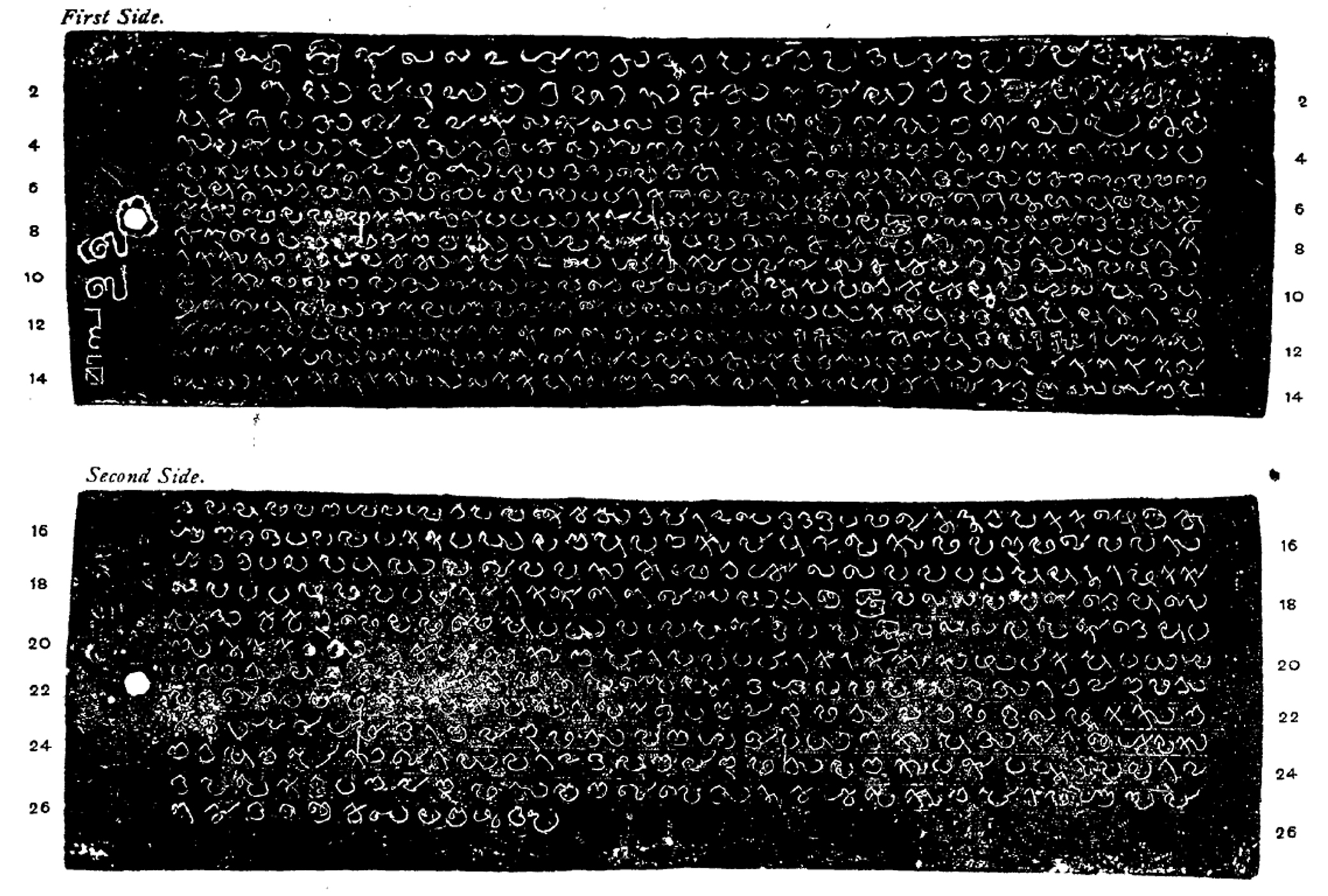 Mampalli copper plate records a donation from the chiefly family of Venad, present-day Kerala, to the Chengannur Temple. The inscription is the earliest record to mention the Kollam Era.